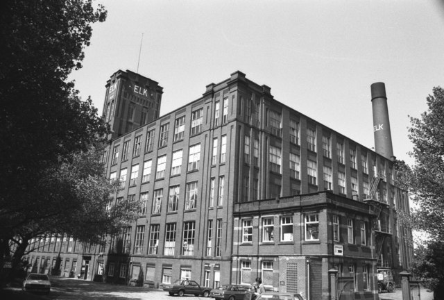 Elk Mill, on the Chadderton-Royton boundary, in Greater Manchester, England. Built 1926 and driven by a Parsons steam turbine that drove the mill by ropes and the neighbouring Shiloh Mills by electricity. It used cotton mules until 1974. Scrapped in 1983. Closed in 1998. Demolished in 1999.